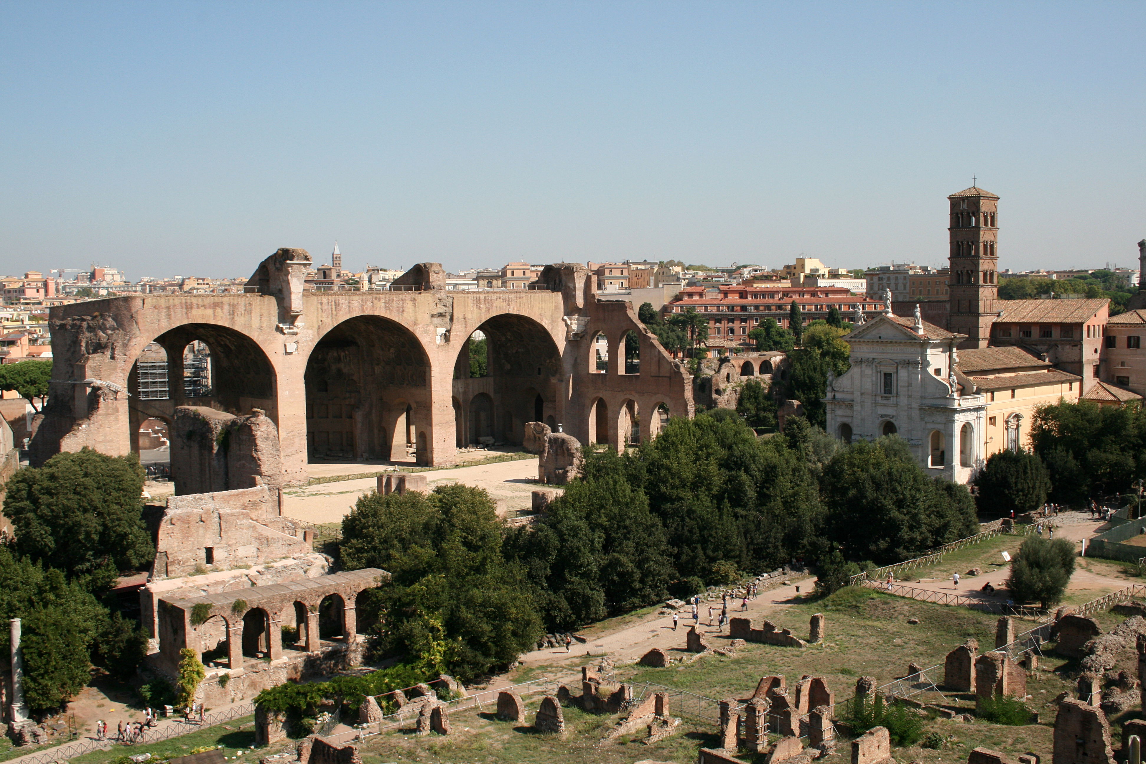 The Basilica of Maxentius and Constantine and the Basilica of Santa Francesca Romana viewed from the terrace of the Palatine pavilions in Rome